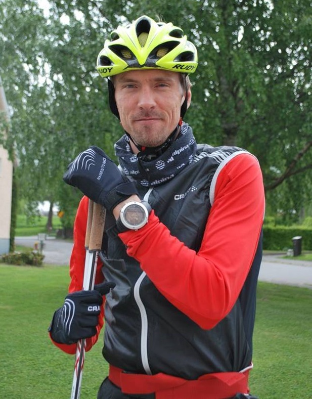 Swedish cross-country skier Johan Olsson.